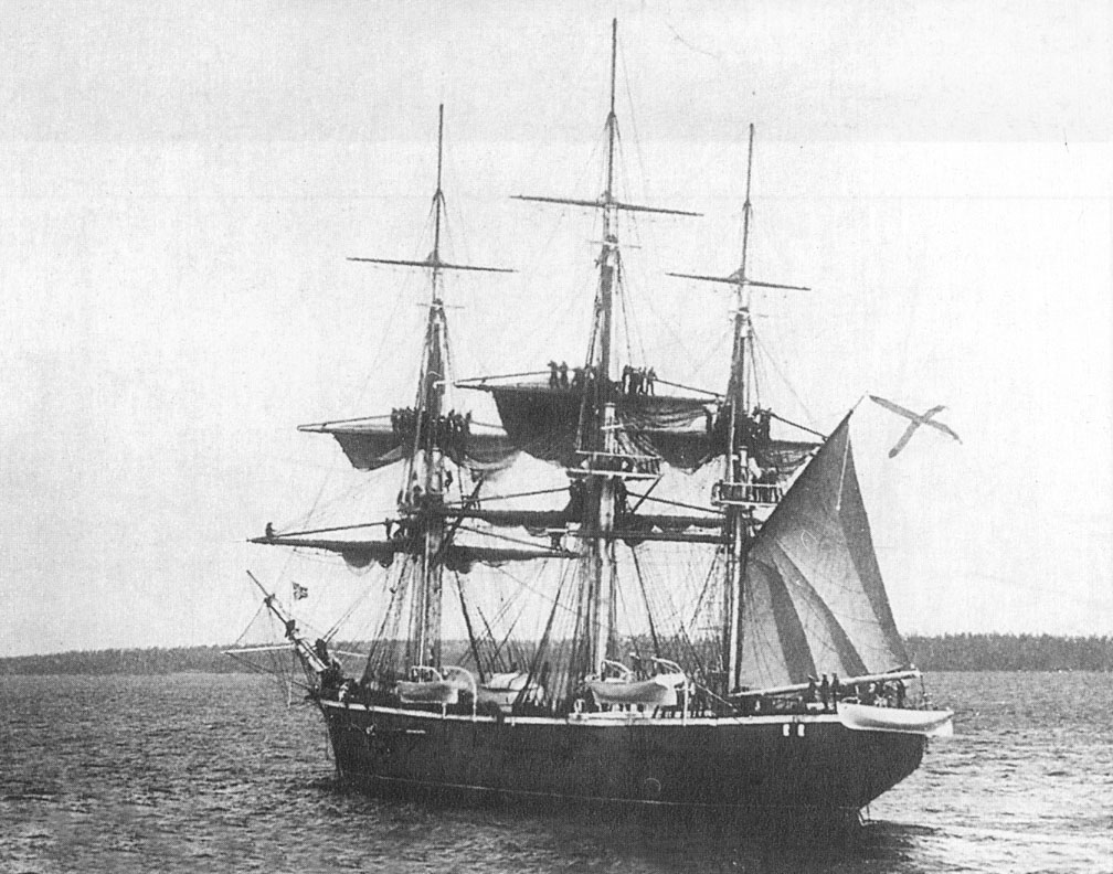 Imperial Russian corvett Boyarin.